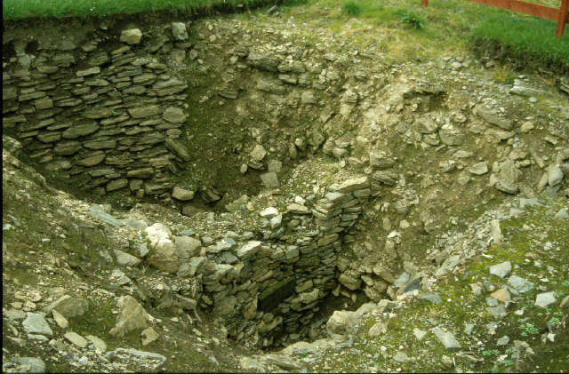 Mine Howe. Excavation of the earthwork adjacent to the main shaft. There is uncertainty about the age and purpose. Neolithic? Iron Age? Subject of one of the Time Team programs on TV in 2000.